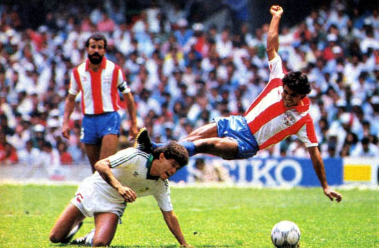 Francisco Cruz (Mexico) going for the ball vs Roberto Cabañas (Paraguay) while Rogelio Delgado watches the scene.